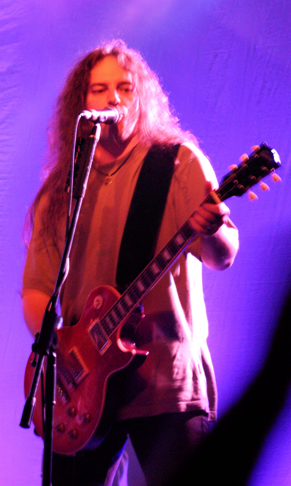 Blind Guardian; Paris 1. Oct 2006